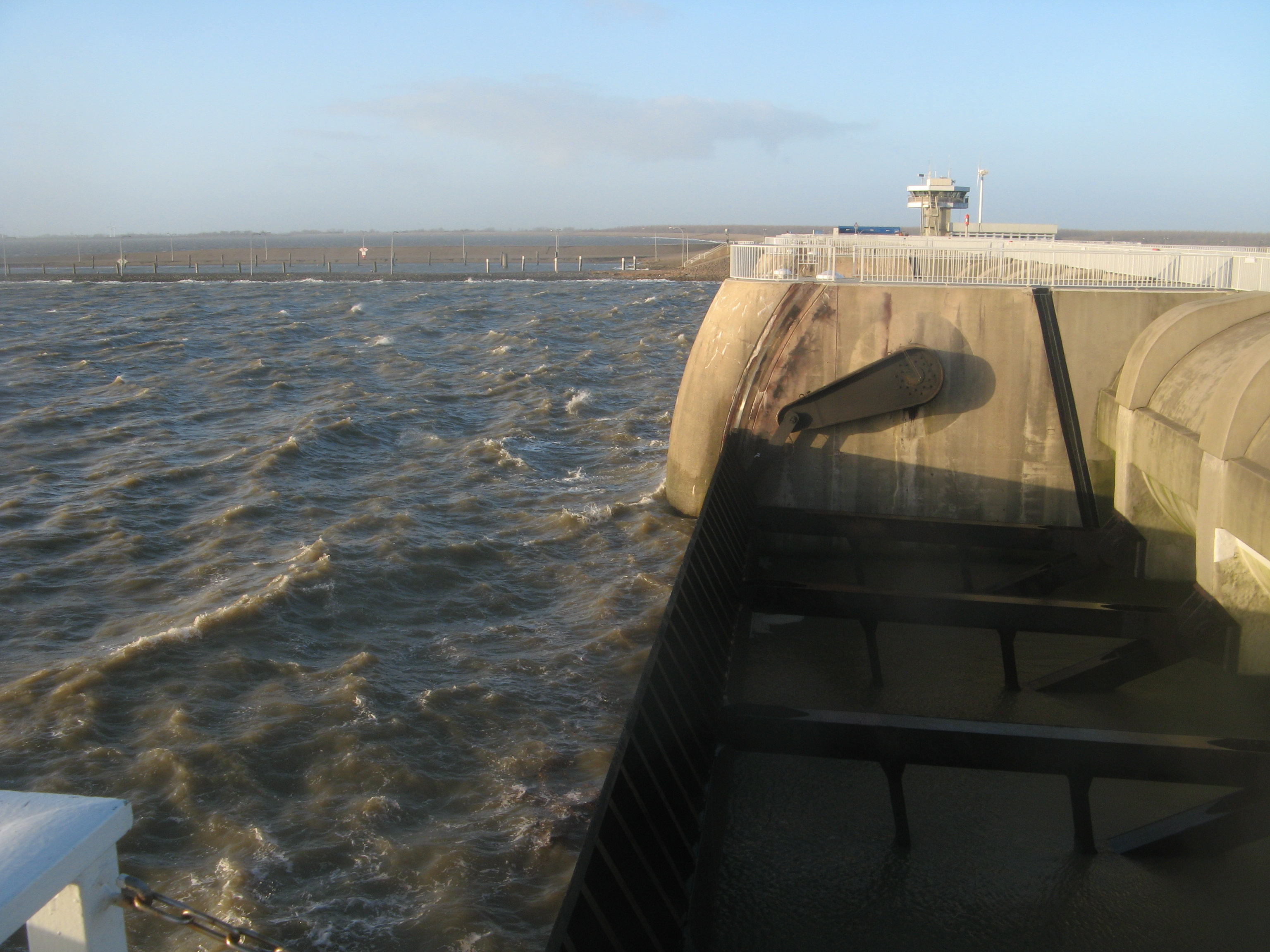 River Eider barrier closed, Holstein/North Friesland, Germany